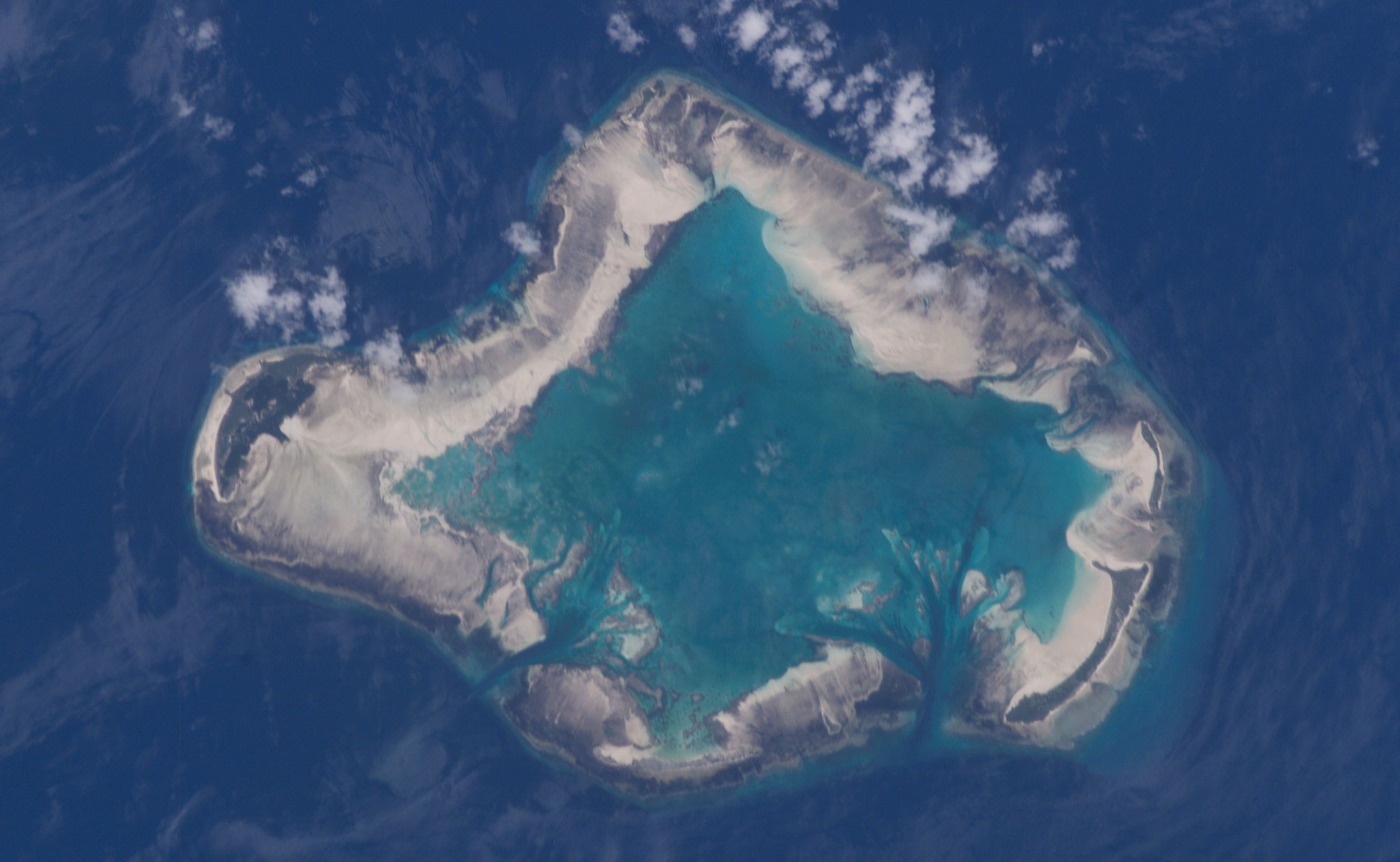 NASA Astronaut Image of Cosmoledo Atoll (Seychelles) in the Indian Ocean